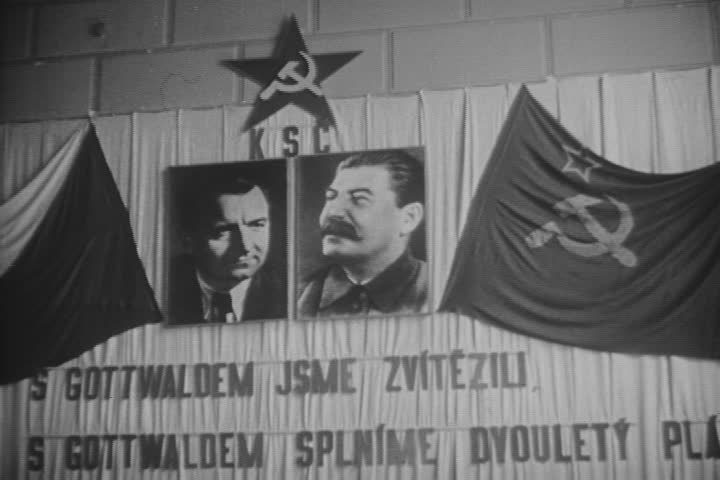 Gottwald and Stalin at the KSC Congress where Gottwald was appointed prime minister. Still frame from the American newsreel "The March of Time".